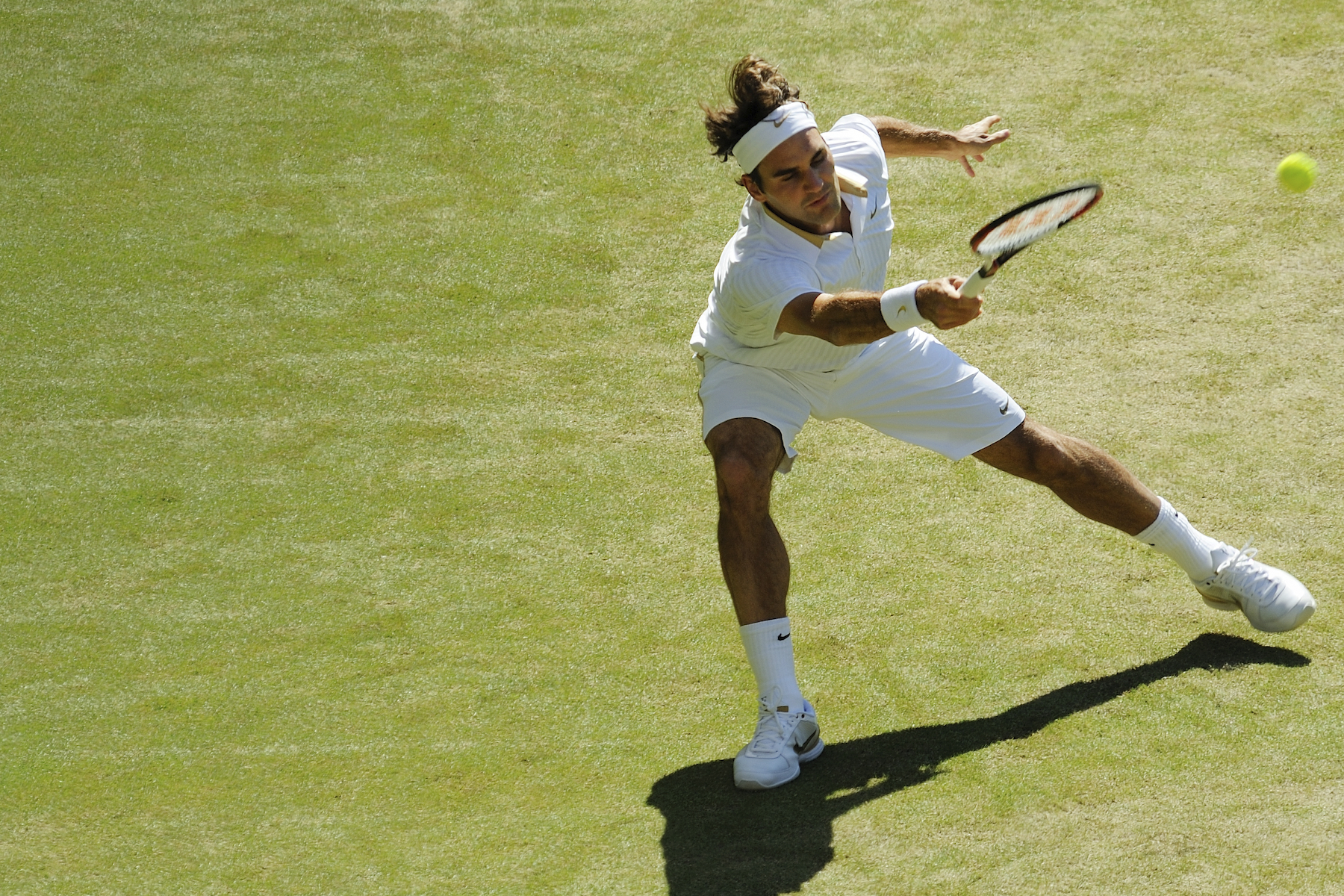 Roger Federer against Guillermo García-López in the 2009 Wimbledon Championships second round